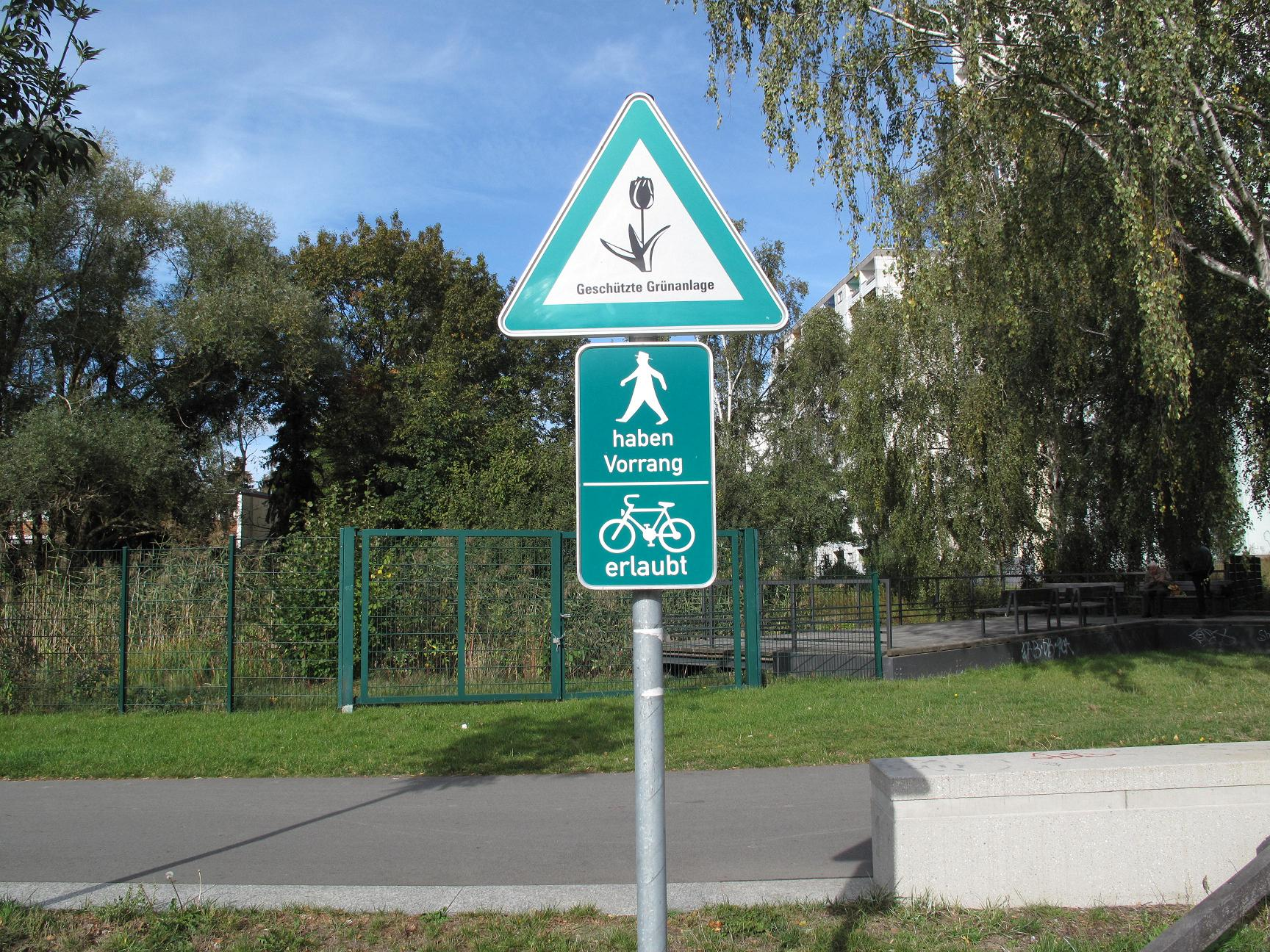 Signboard „Geschützte Grünanlage“ (german for: protected green space) at the green space Bullengraben, platform at Wiesenbecken (rainwater basin). The Bullengraben (german for: bullditch) is a drainage channel to the river Havel in the localities Staaken, Wilhelmstadt and Spandau in the borough Berlin-Spandau, Germany. In 2007 there was opened the green space Bullengraben (german: „Grünzug Bullengraben“) along the 4,5 kilometre long ditch.